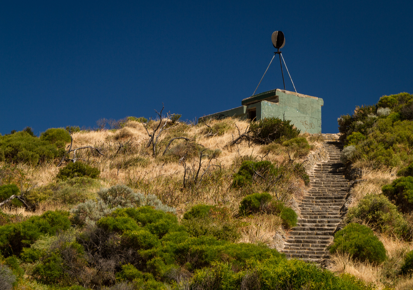 Point Peron trig